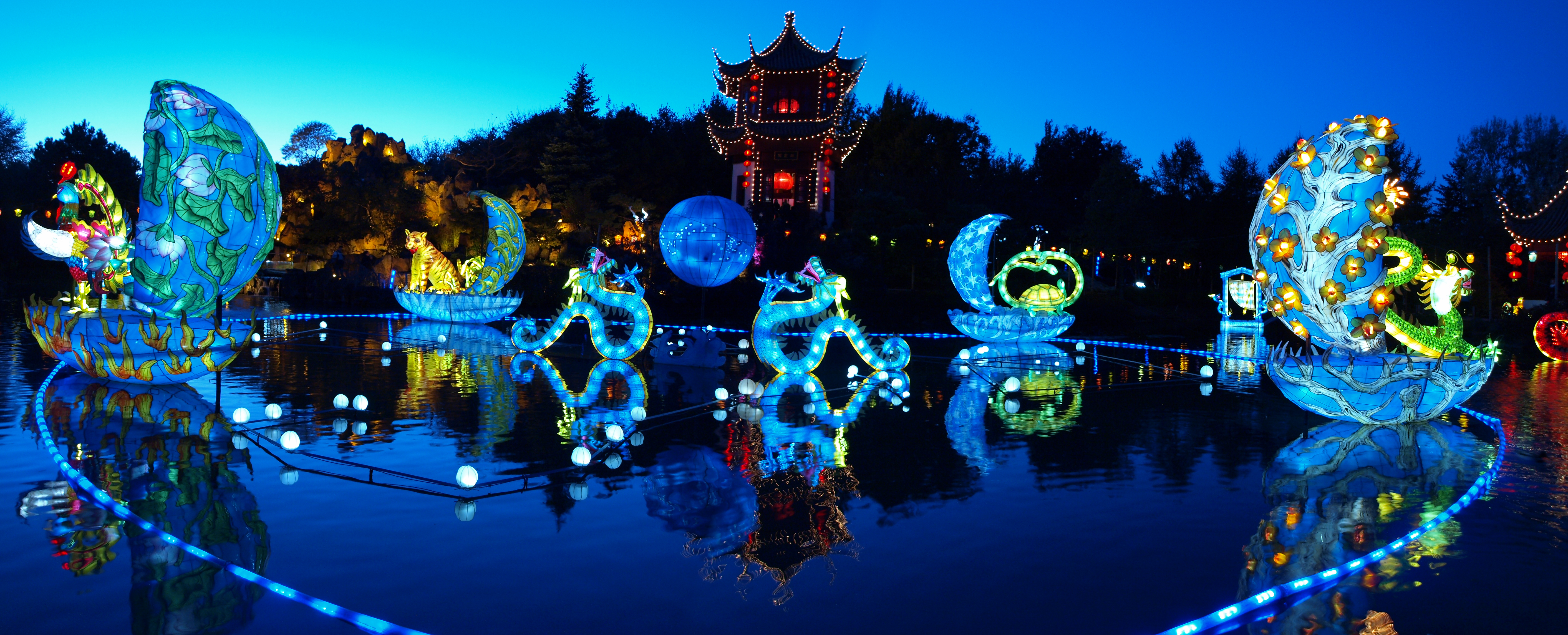 Panoramic view for The Magic of Lanterns 2009, at the chinese garden, in the Botanical Garden of Montreal Quebec